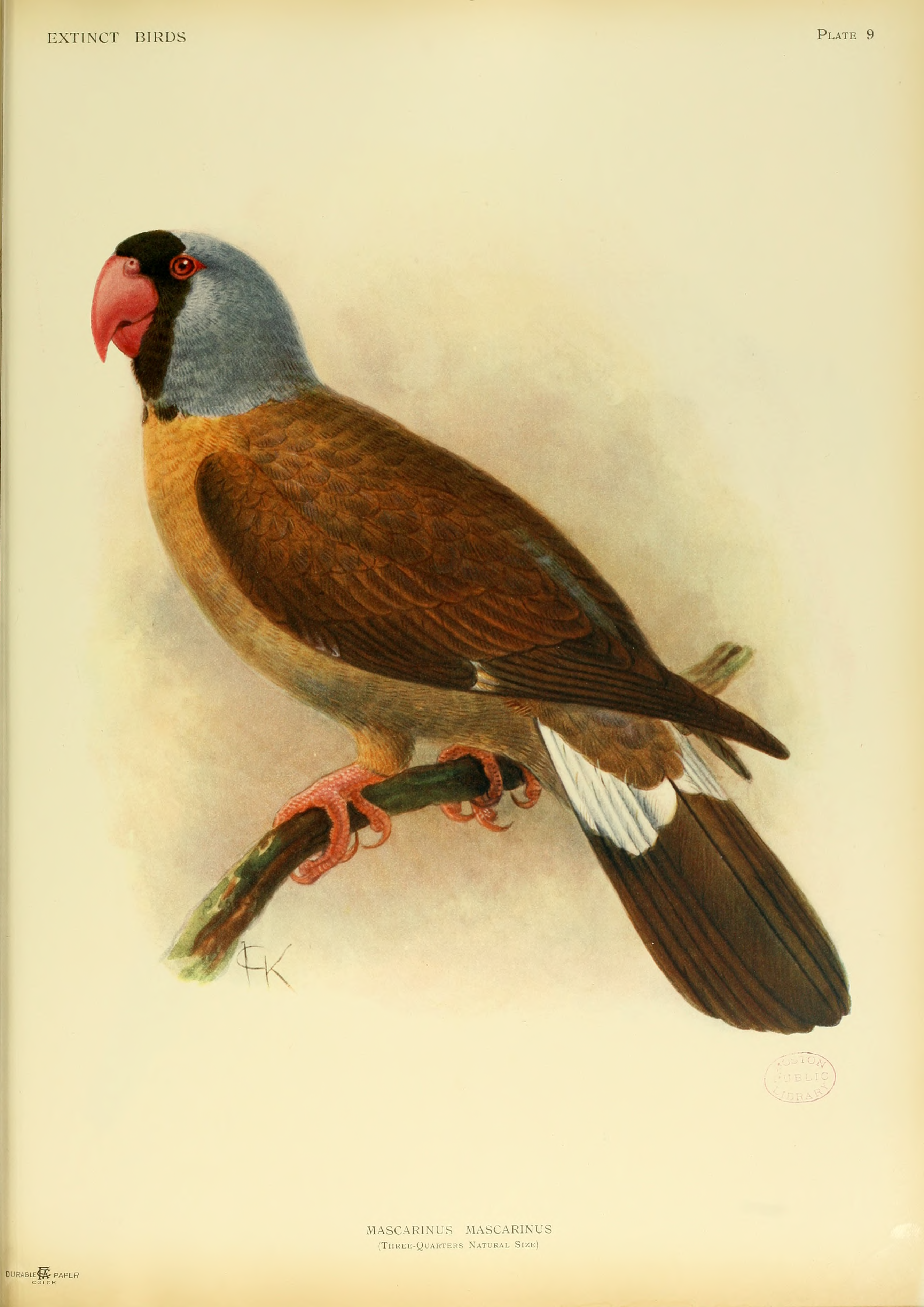 The Mascarene Parrot (Mascarinus mascarinus) is an extinct species of parrot known from bones, specimens and descriptions to have occurred in the Mascarene island of Réunion, and possibly Mauritius.